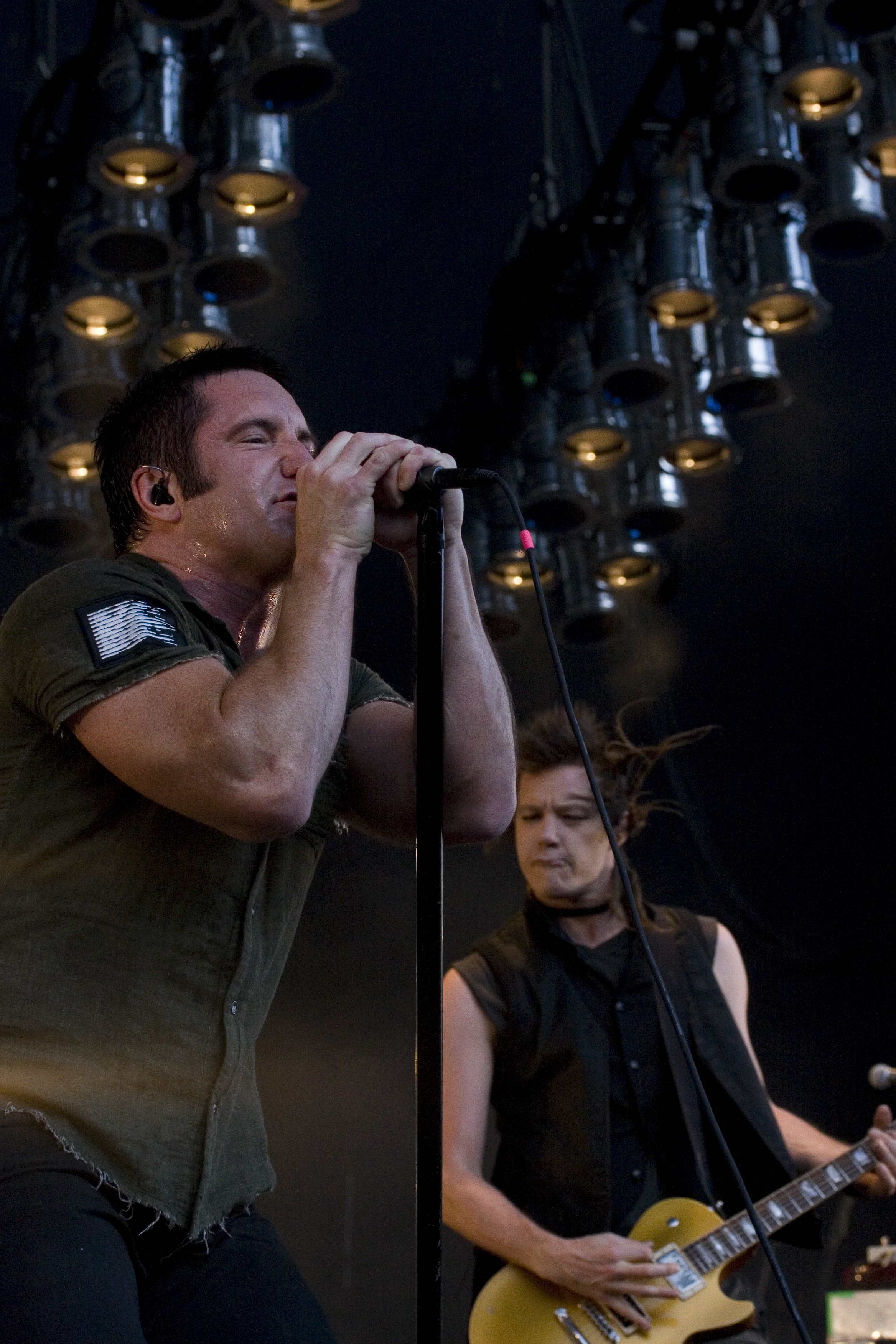 Trent Reznor and Robin Finck, Nine Inch Nails, Santa Barbara, California May 21st, 2009 (image shot by Fiona Bowie (gebgdc)